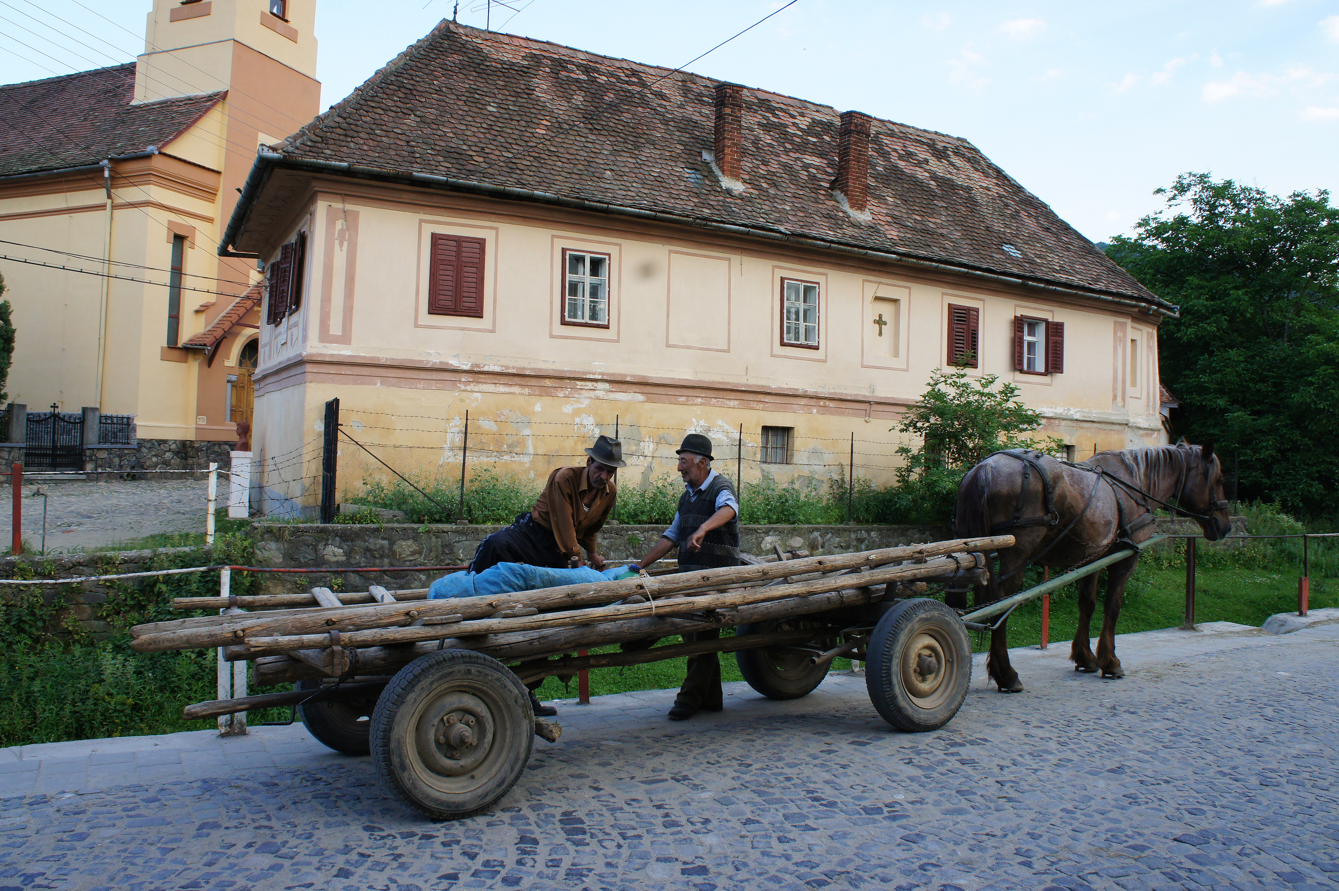 once upon a time...